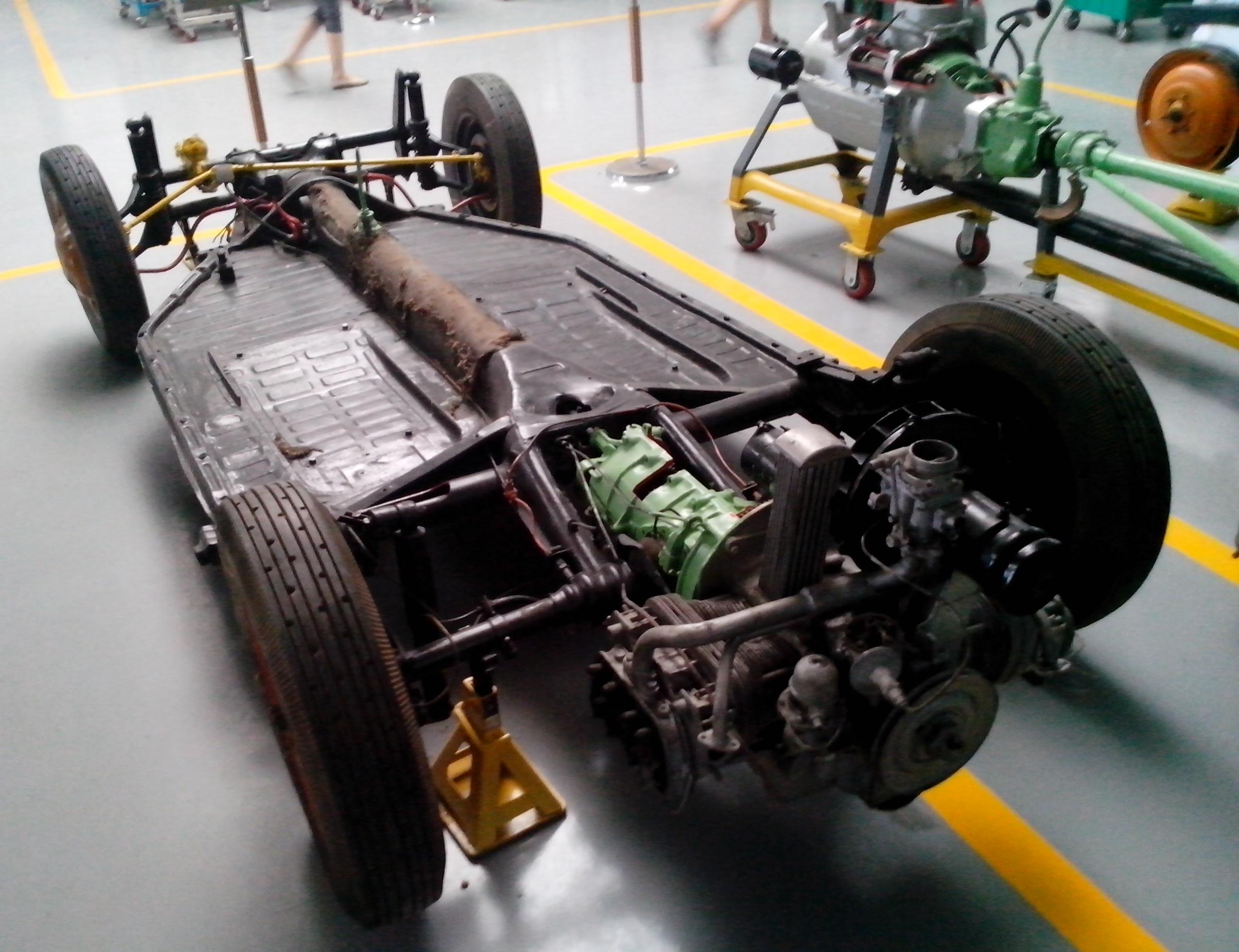 The chassis of Tatra T600 Tatraplan, with rear-mounted flat-4 engine. This chassis is collected in an automotive lab in the Nanling Campus of Jilin University.